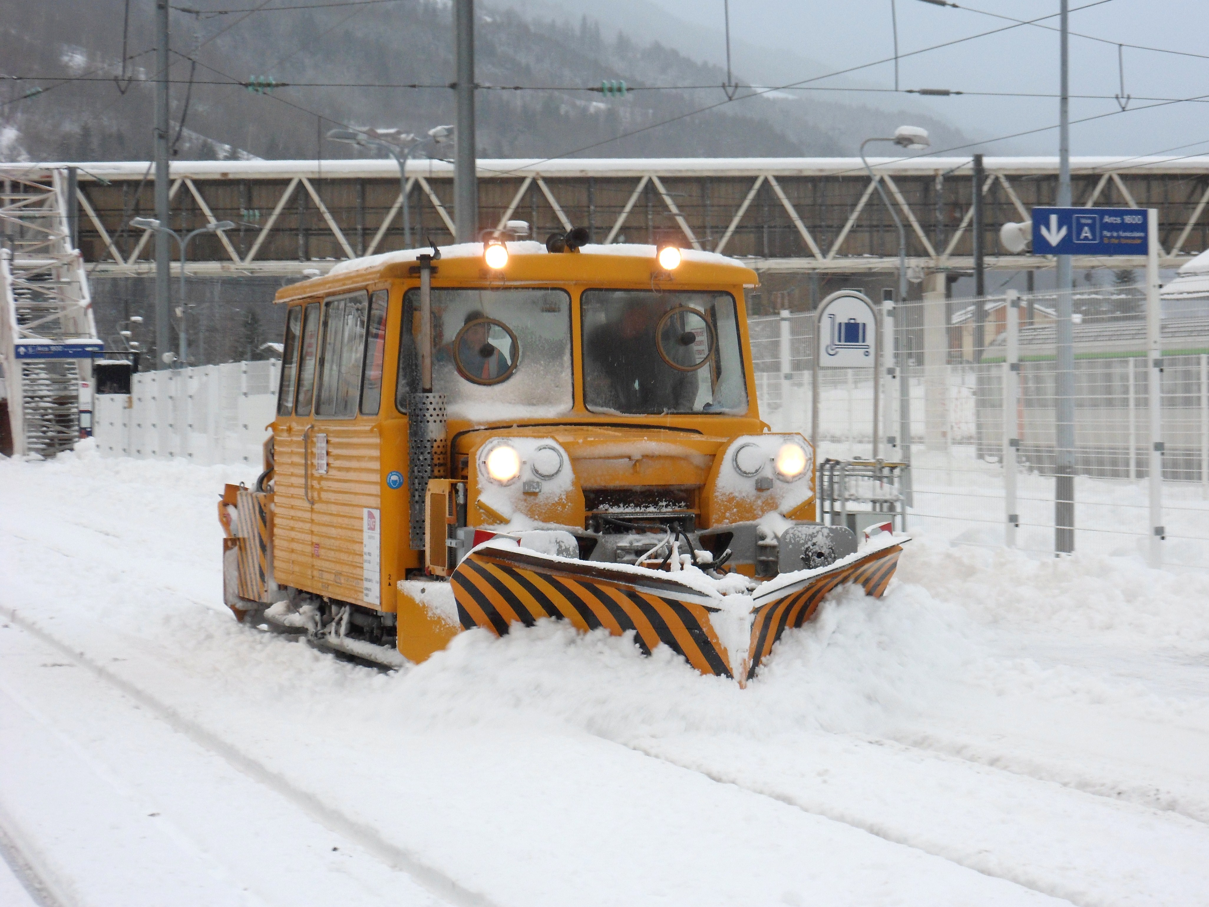 Locomotive Draisine snowplow in action at Bourg-Saint-Maurice station, in Savoie, France.